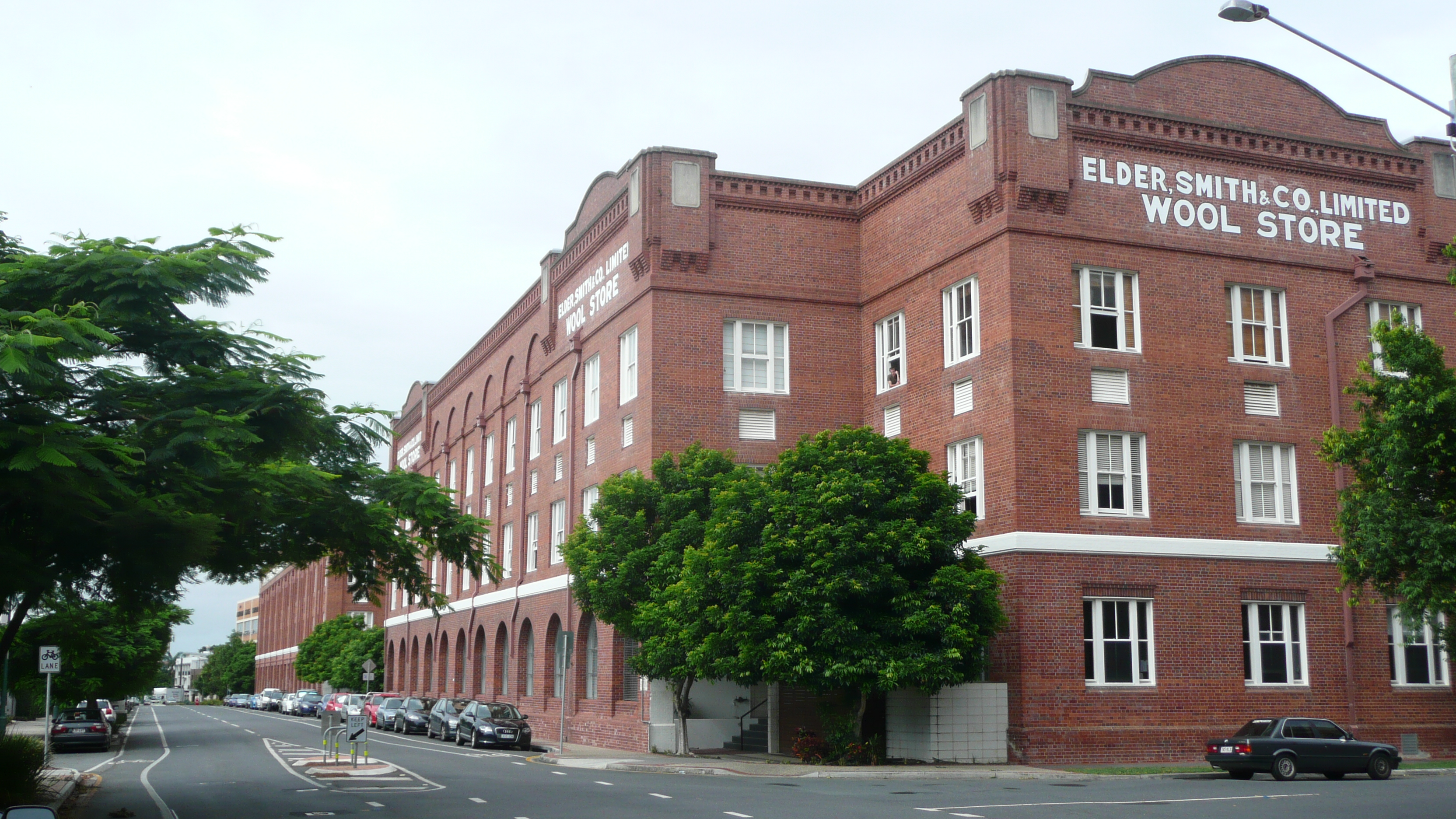 Elder Smith & Co Wool Store